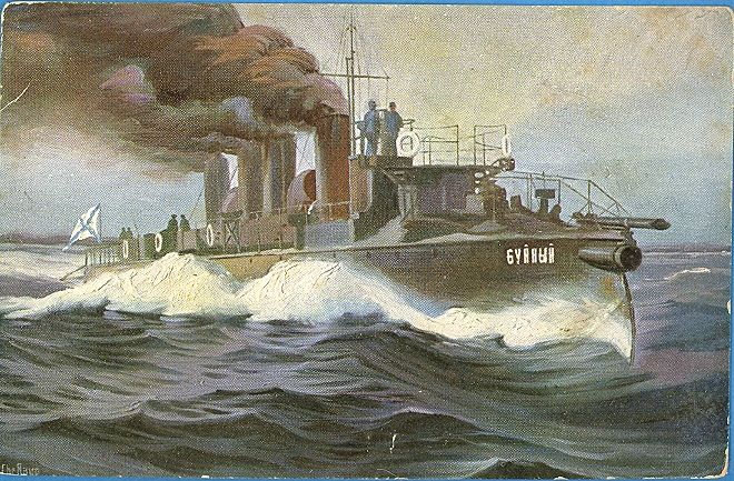 Open Letter (Carte Postale) with print of Russian Imperial Navy torpedo-destroyer Buyniy.